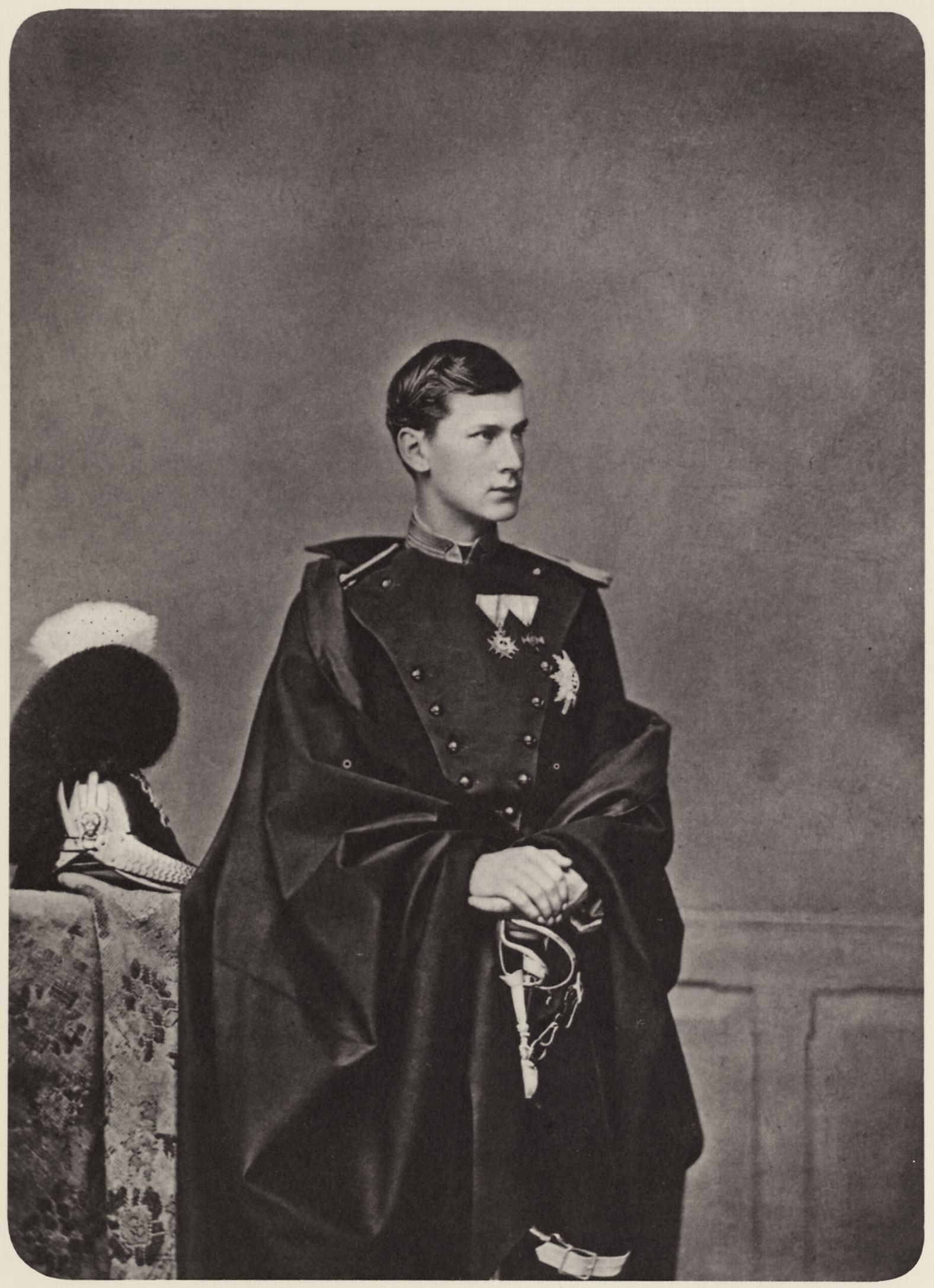 (King) Otto of Bavaria (1848-1916), pretty young